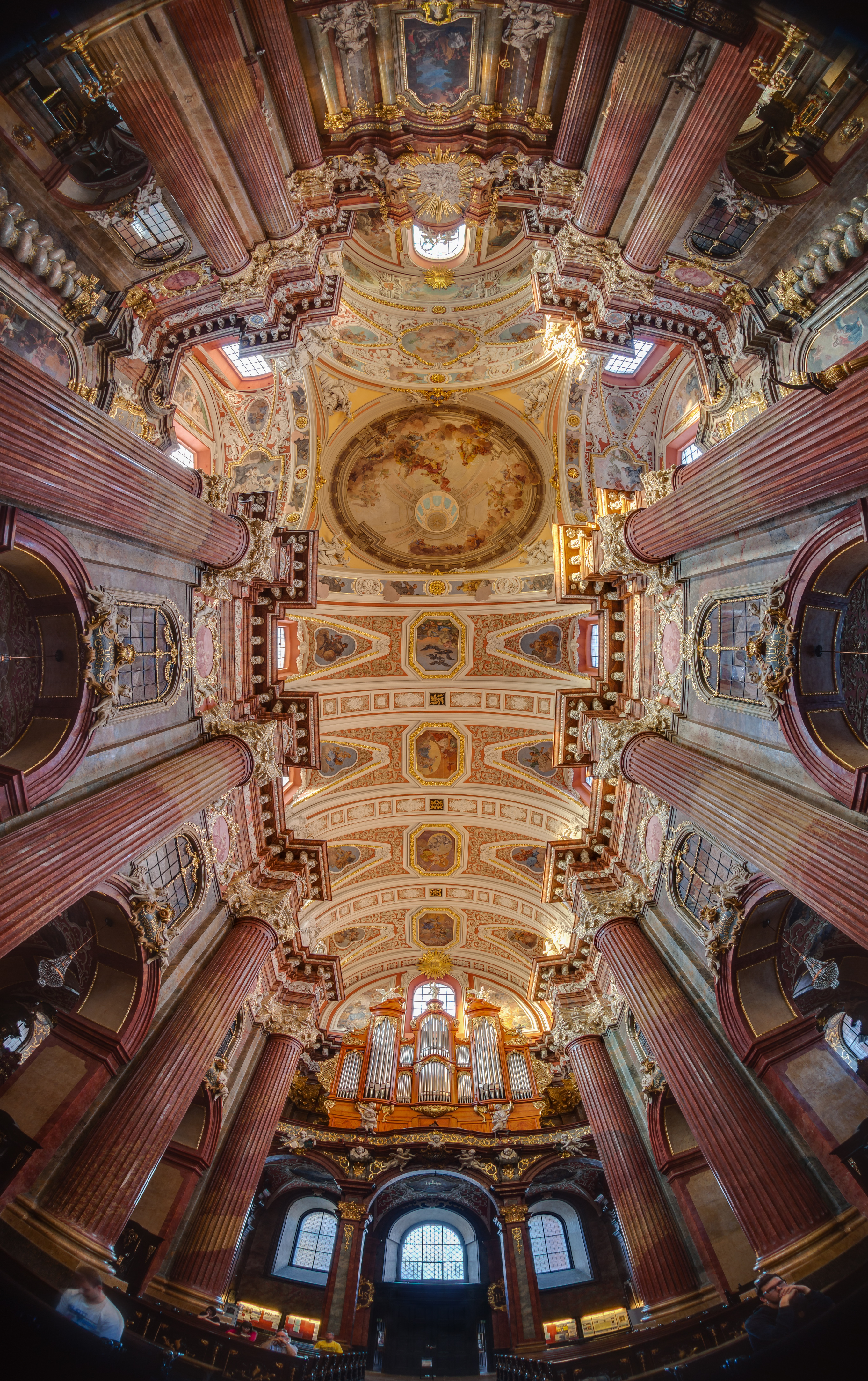 Round view of the Basilica of Our Lady of Perpetual Help and St. Mary Magdalene, commonly known as Collegiate church, is located in the center of Poznań, Poland. The baroque parish church is also Collegiate of Stanislaus of Szczepanów. The construction of the temple began in 1651 and took half a century until it was consecrated unfinished in 1701, and had to undergo a reconstruction in 1780 afert its destruction in 1773.